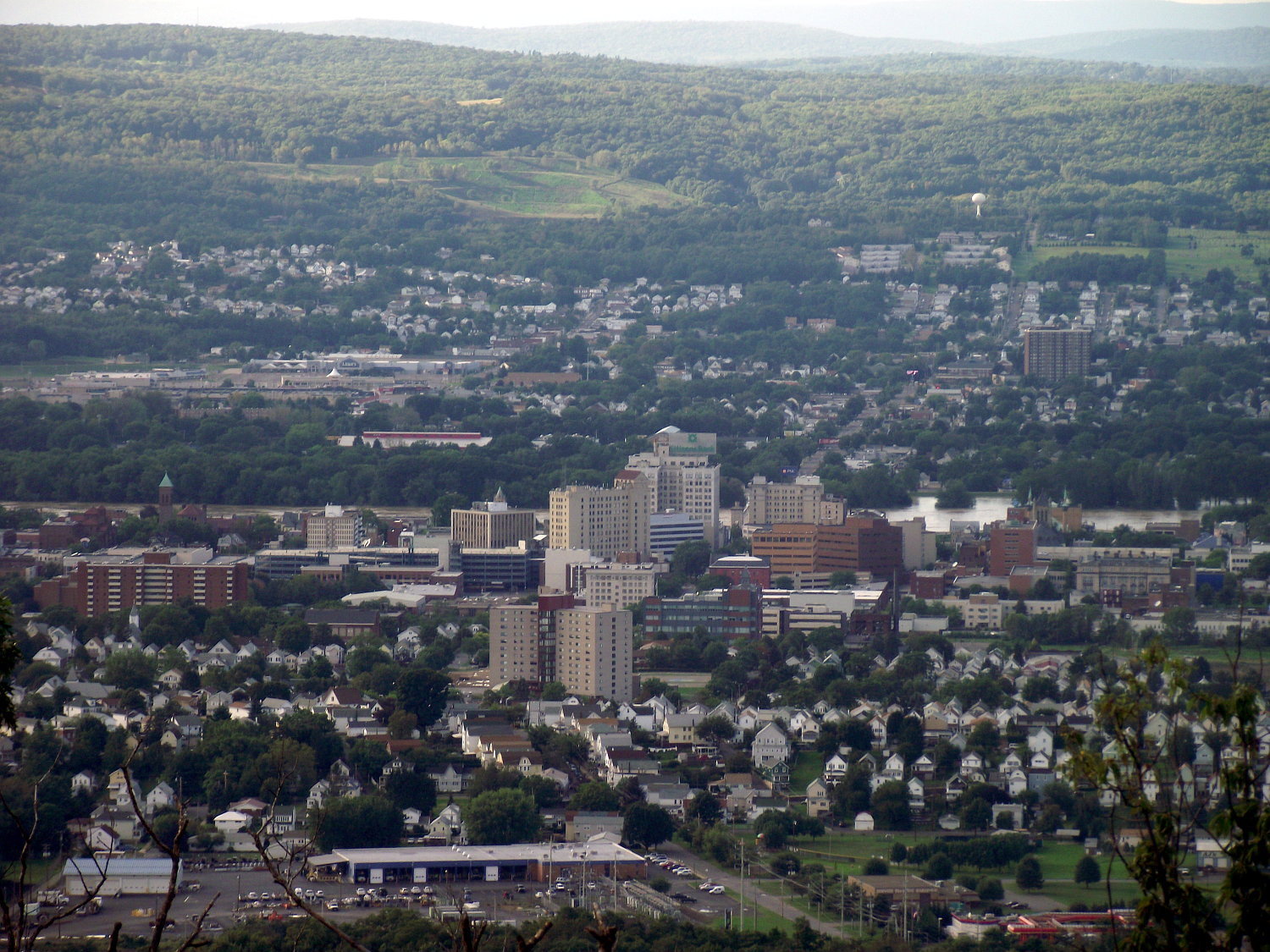 Swollen Susquehanna River flooding surrounding areas around downtown Wilkes-Barre